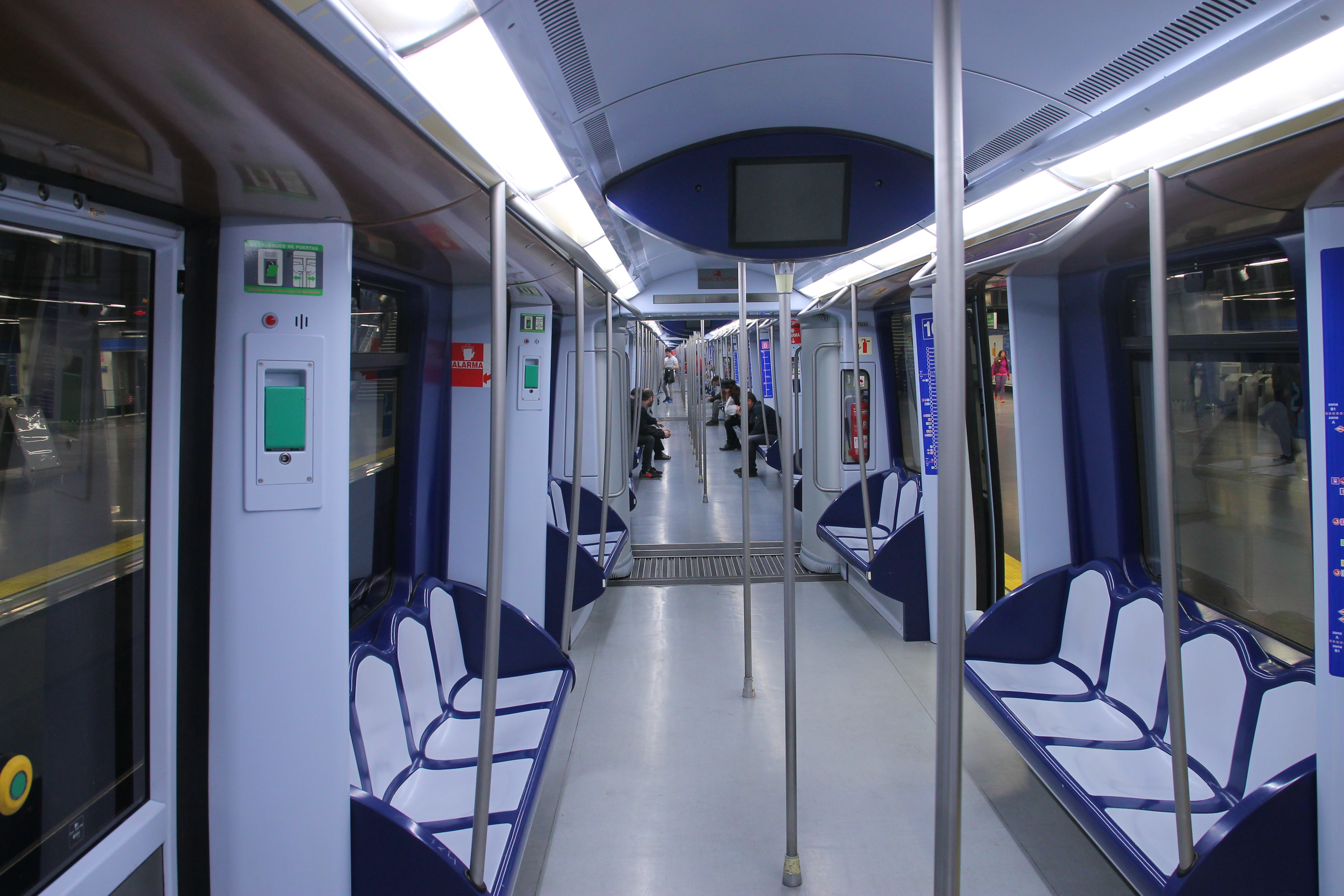 Series 7000 of Metro Madrid